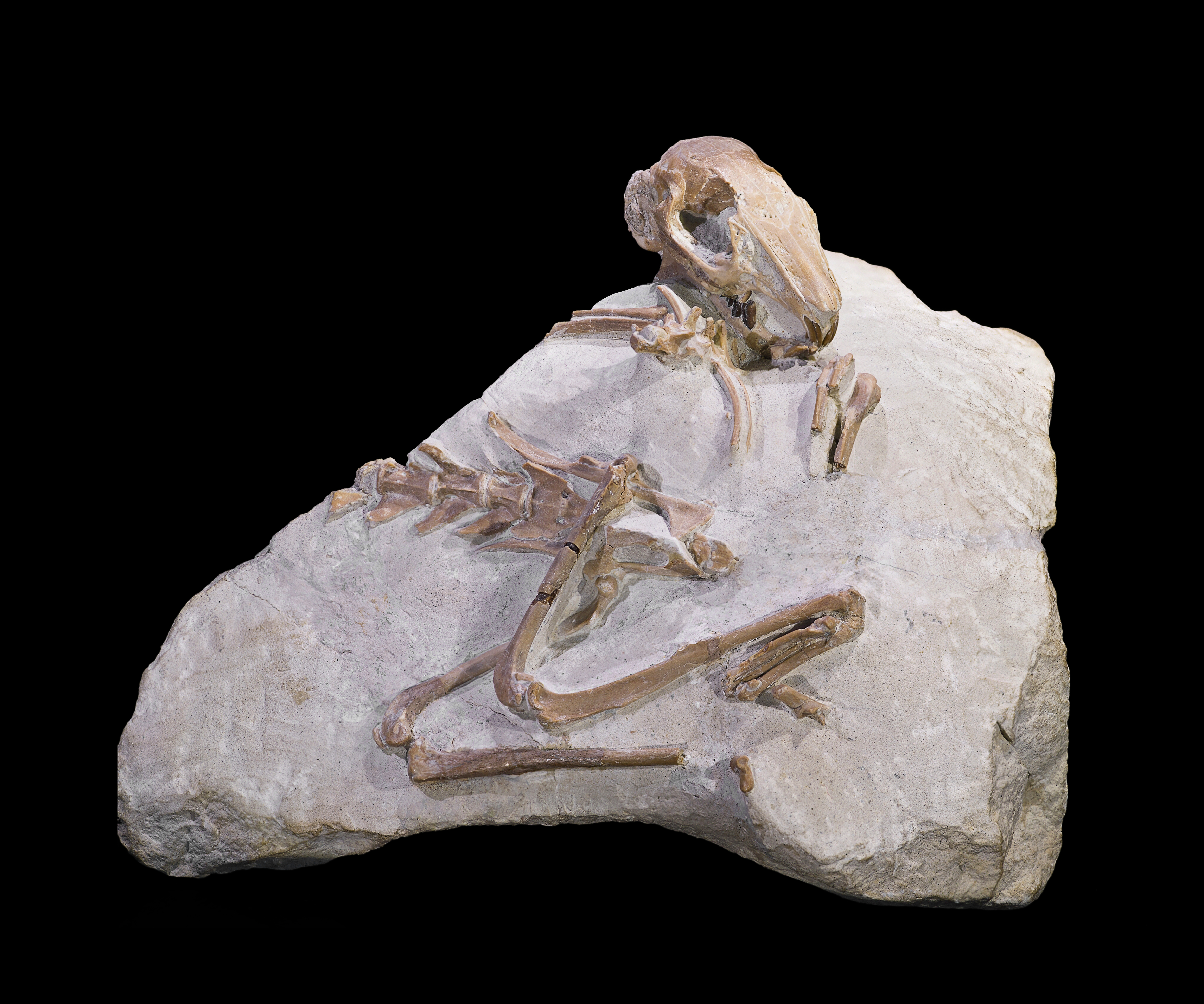 Palaeolagus haydeni : ancient rabbit, is an extinct genus of lagomorph in the family Leporidae. Locality : White River Badlands, Wyoming USA Stage : Oligocene (Rupelian 33.9 million years ago) Size : 16.5x12x5.6 cm